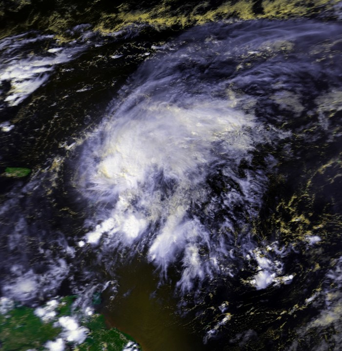 This image shows Hurricane Klaus at peak intensity on October 5 at 1738 UTC. This image was produced from data from NOAA-11, provided by NOAA.